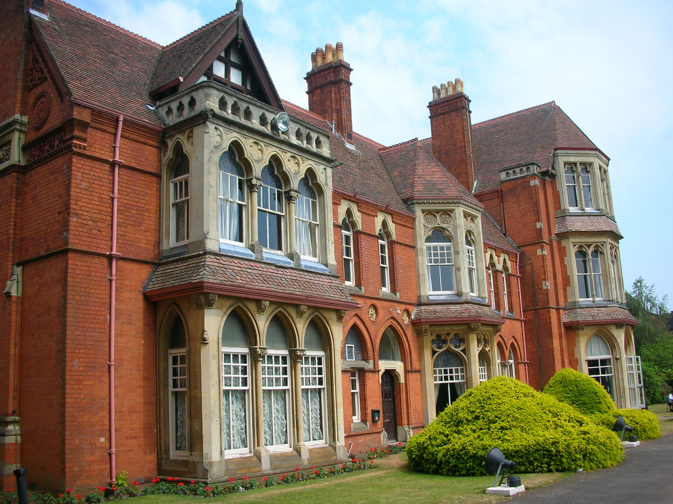 Highbury Hall, Birmingham, England. Built 1879 for Joseph Chamberlain by John Henry Chamberlain. Grade II* listed. Photographed by me. Oosoom